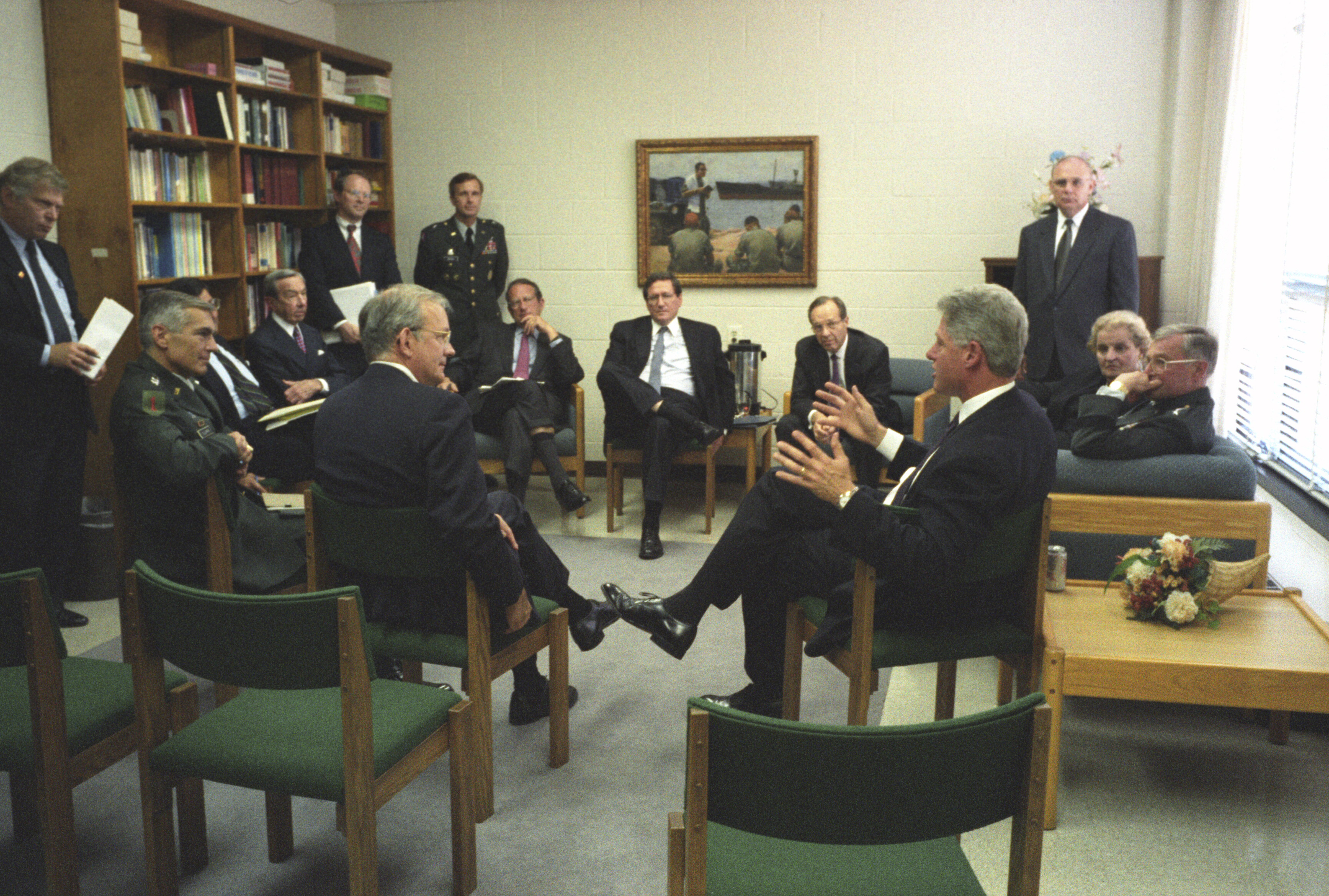 August 21, 1995: President Clinton holding an impromptu meeting with the government and negotiating team following a ceremony at Fort Myer, Virginia honoring three U.S. negotiators who died while traveling to Sarajevo. (Credit: William J. Clinton Presidential Library) Hosted by the Clinton Library and the Clinton Foundation, the document release was spearheaded by CIA’s Historical Review Program (HRP), which identifies, collects and produces historically relevant collections of declassified materials. The Bosnia collection—the youngest ever released in HRP’s 20-year existence—is available online at A video recording of the symposium is available at